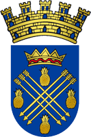 Caguas seal